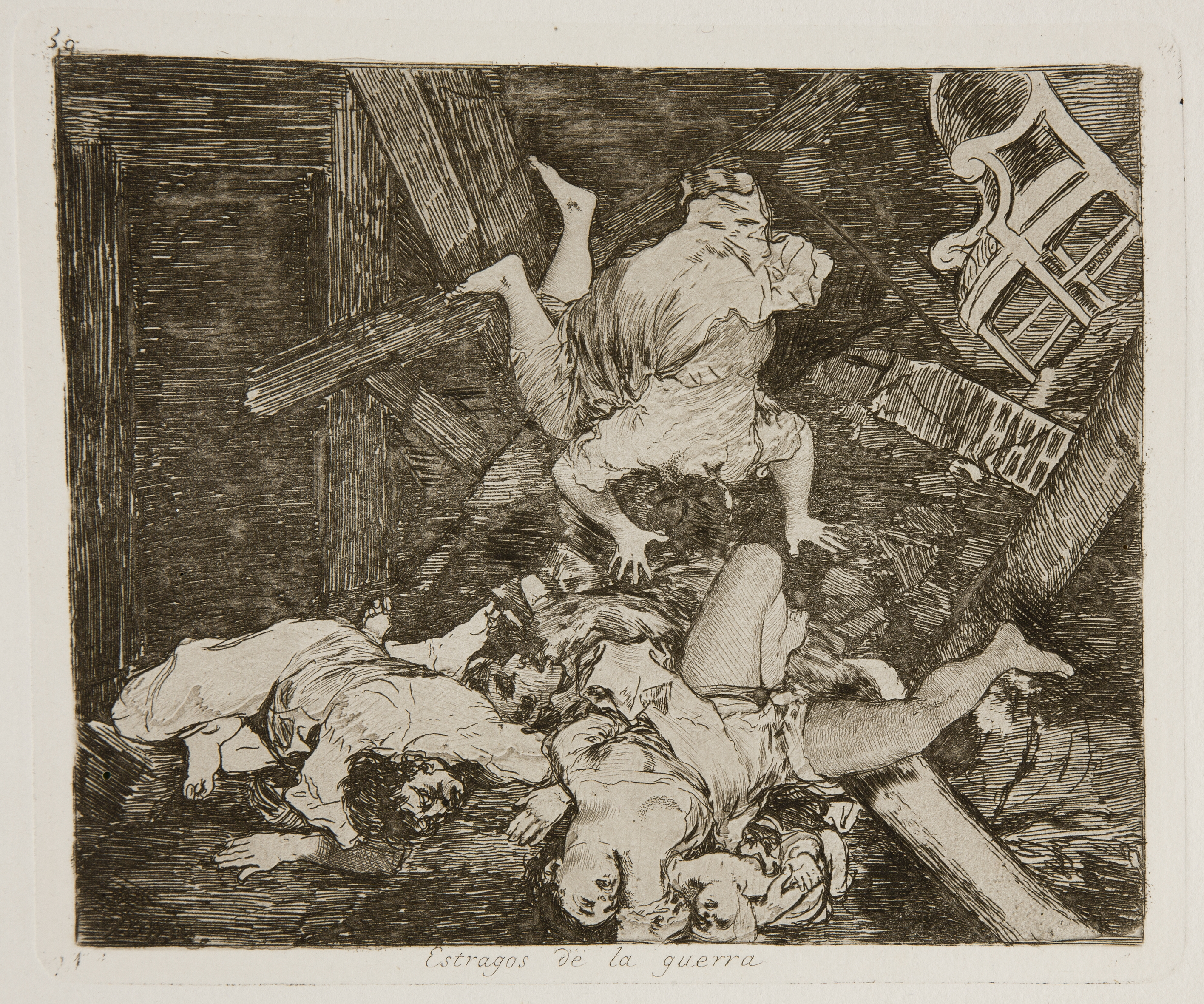 Los desastres de la guerra, plate No. 30, (1st edition, Madrid: Real Academia de Bellas Artes de San Fernando, 1863)